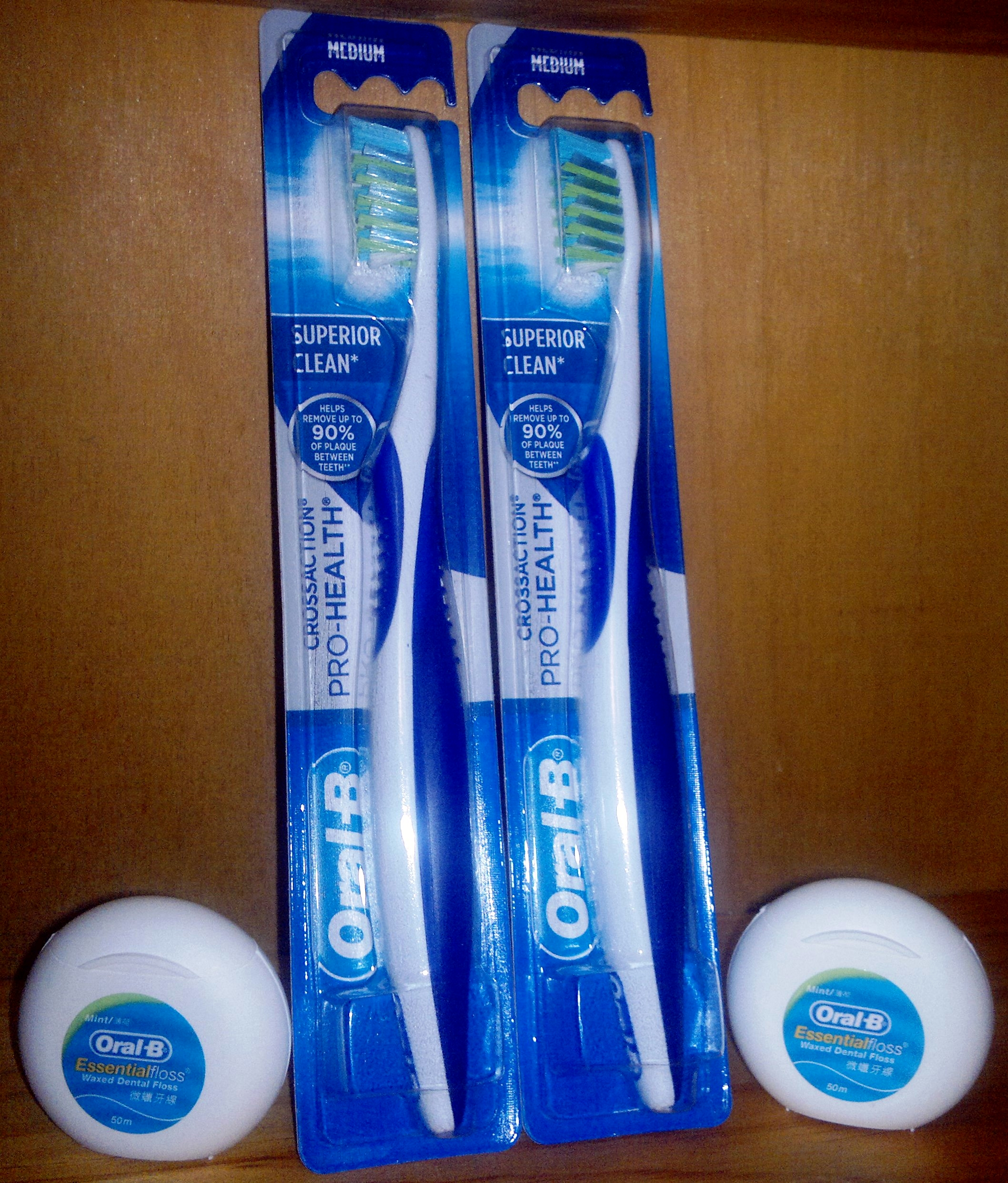 Oral-B CrossAction Pro-Health toothbrushes